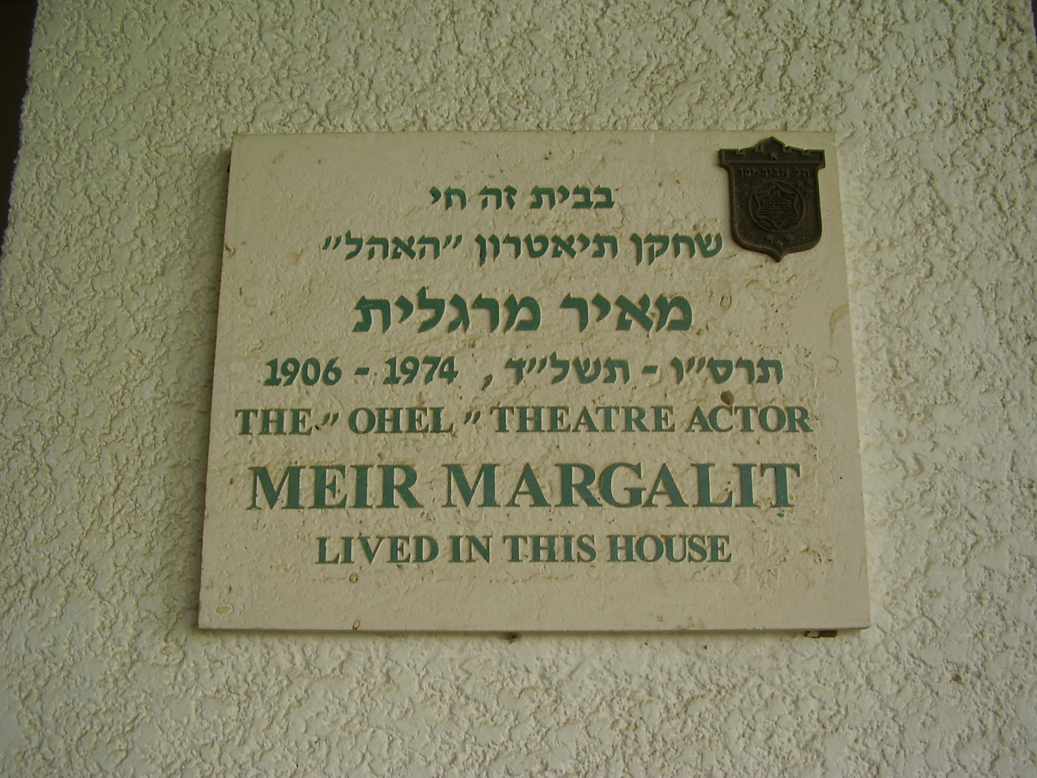 memorial plaque on the house of the actor meir margalit in tel aviv לוחית זיכרון על ביתו של השחקן מאיר מרגלית ברח' שדרות סמאטס 12 בתל אביב